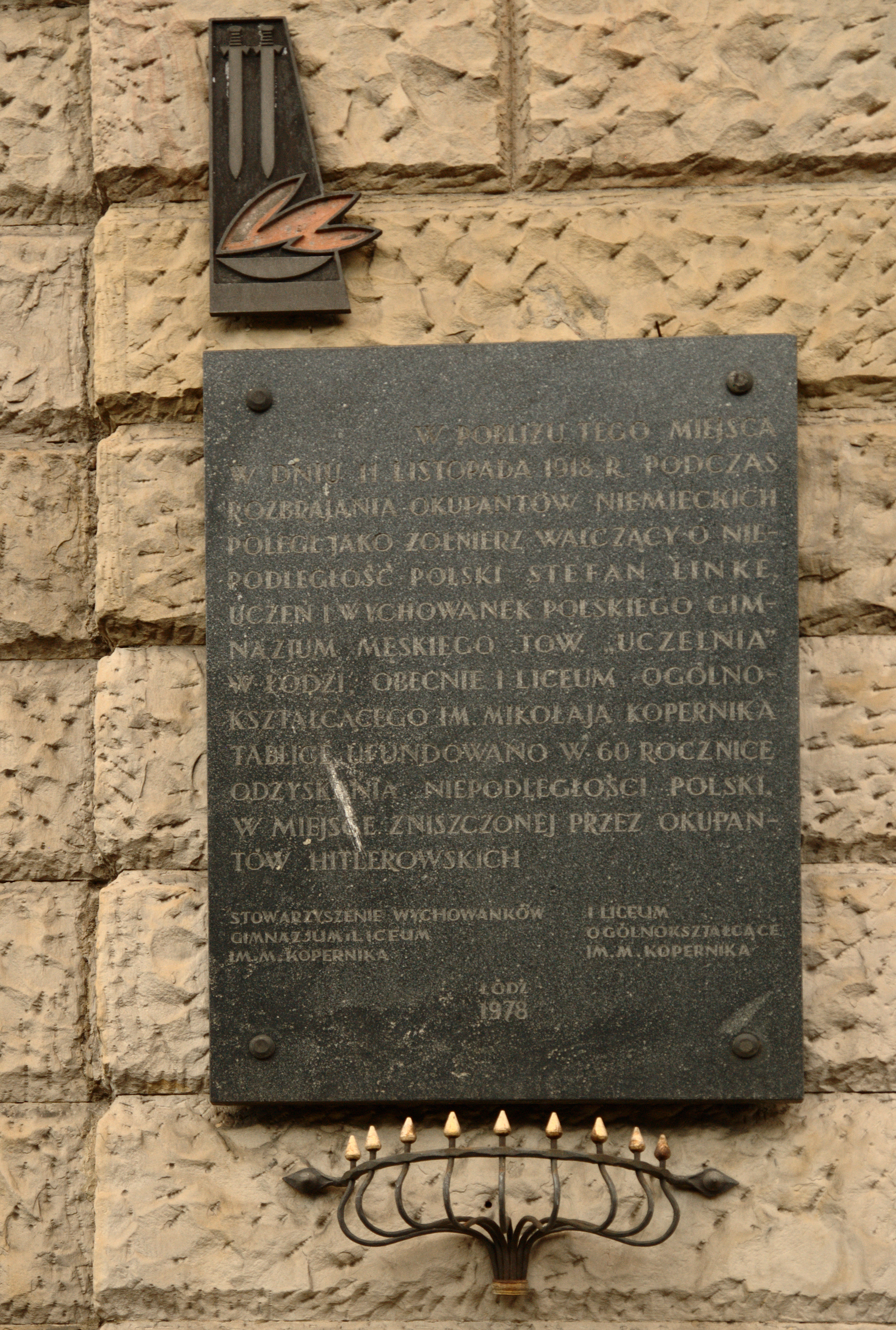 Plaque of Stefan Linke on NBP's building in Łódź.